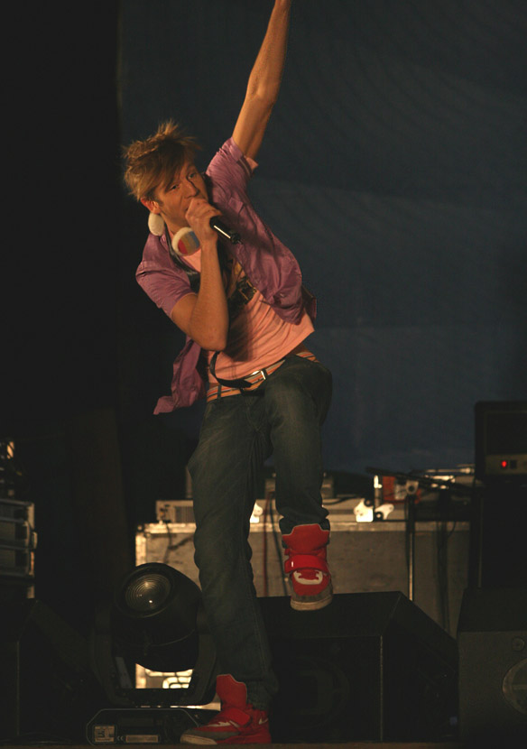 Ivan Dorn of the Ukrainian pop group “Para normalnykh” (2Normal) «Пара нормальных» performing at the Yanukovic for President rally in Dnipropetrovsk, Karla Marksa Prospect.